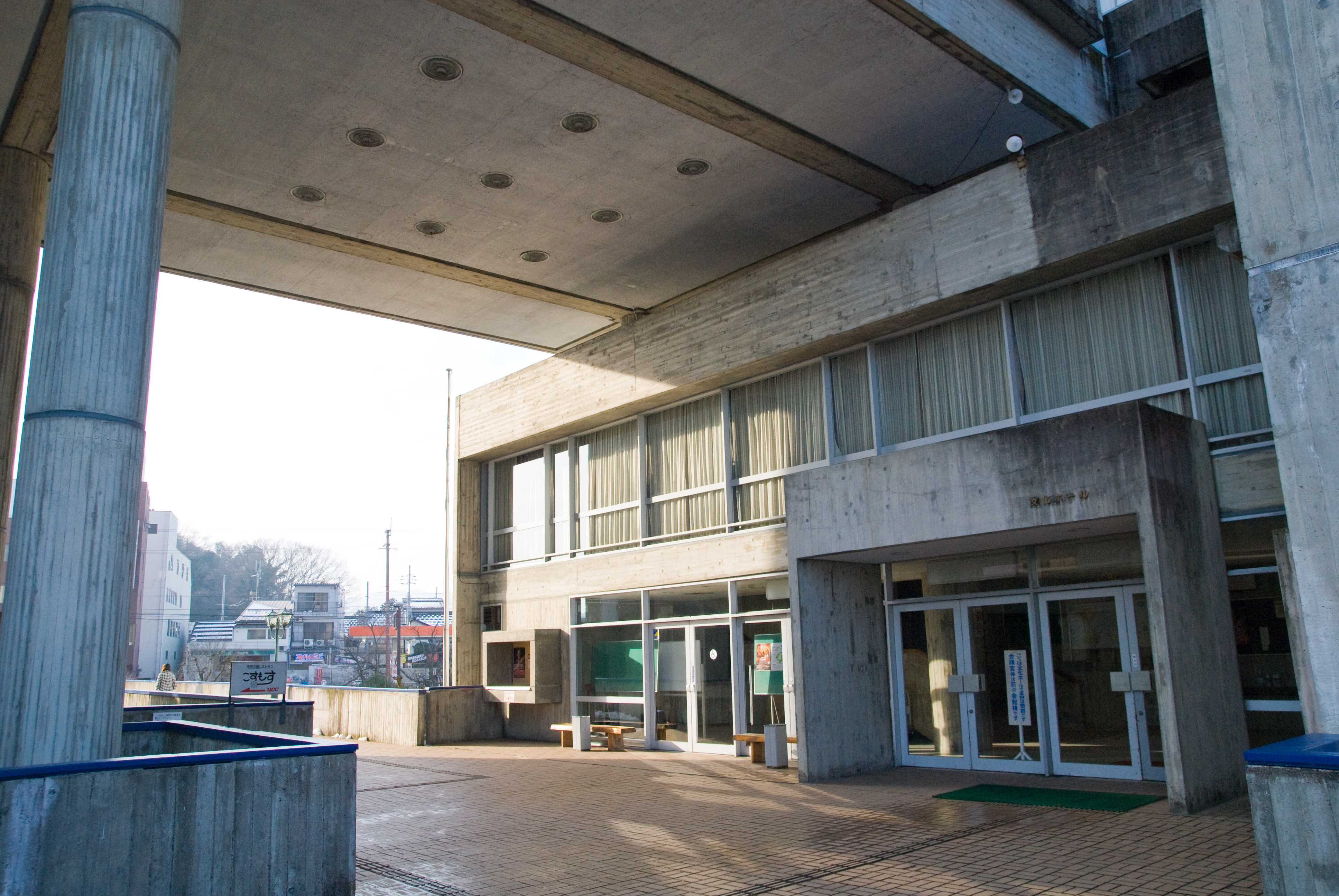 Toyooka civic Hall Entrance Space.